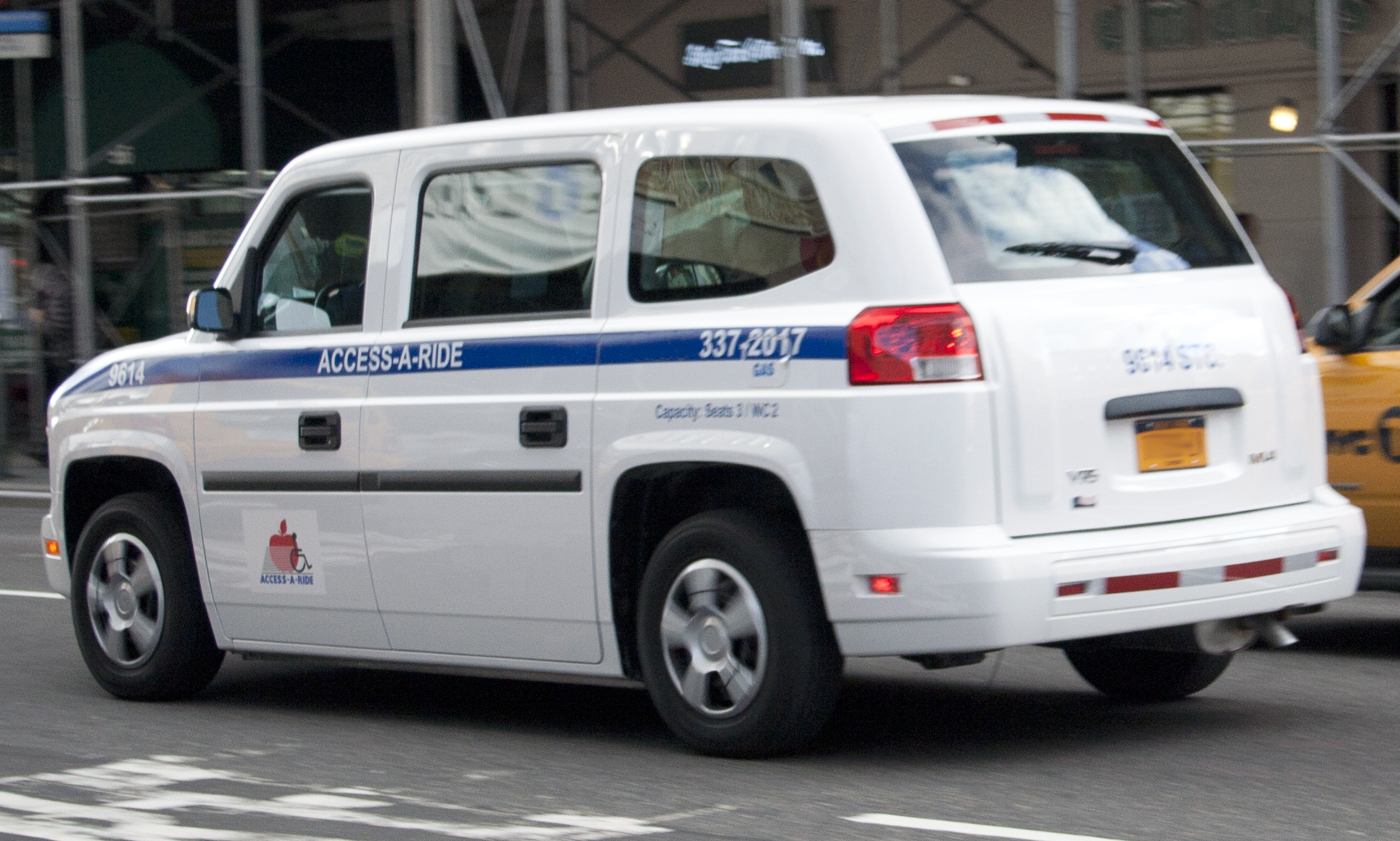 2012 VPG MV-1, a wheelchair accessible vehicle, in use by New York's "Access-A-Ride" paratransit services.